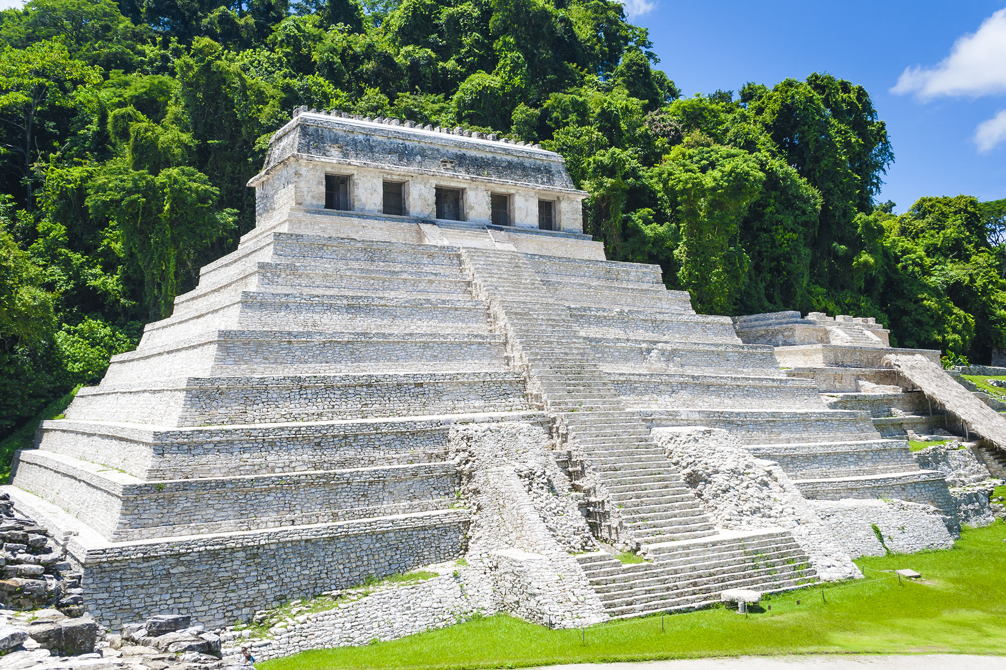 Palenque ( Chiapas ). Temple of inscriptions